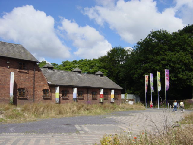 National Wildflower Centre, Court Hey Park. This traditional parkland is one of Knowsley's best-kept secrets. Its 14 hectares provide one of the best collections of mature trees seen anywhere in the Borough with landscaped areas of wildflower planting. The National Wildflower Centre, founded by Landlife opened at Court Hey Park in 2000. The centre, one of only two of its kind in the world, helps to promote the creation and conservation of wildflower landscapes. Landlife is based in the former walled garden and produces wildflower seeds and plants to help bring wildflower landscapes back into the British countryside. The stunning 150-metre long visitor centre, features a café and shop, outdoor exhibitions, conference centre and superb rooftop promenade